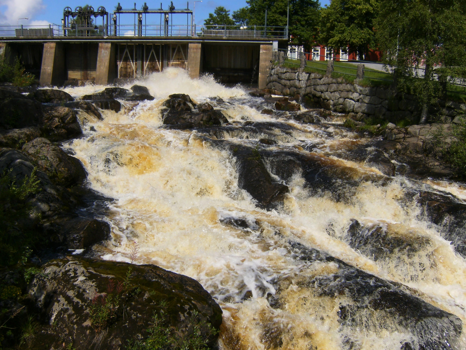 The Jämsänkoski Rapid, Finland